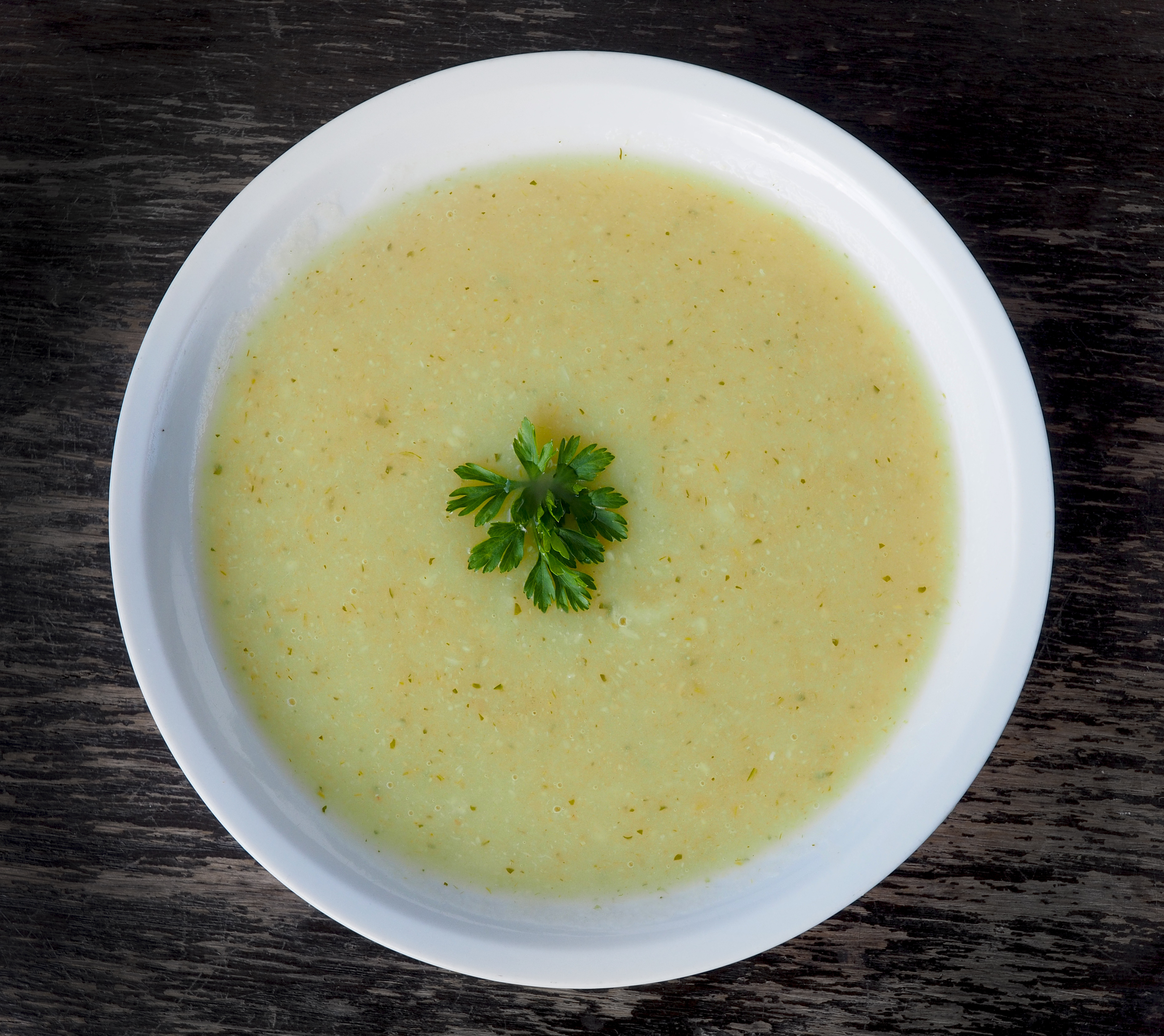 Hippocrates soup. Soup made of vegetables and potatoes, also part of Gerson thepary. Recipe